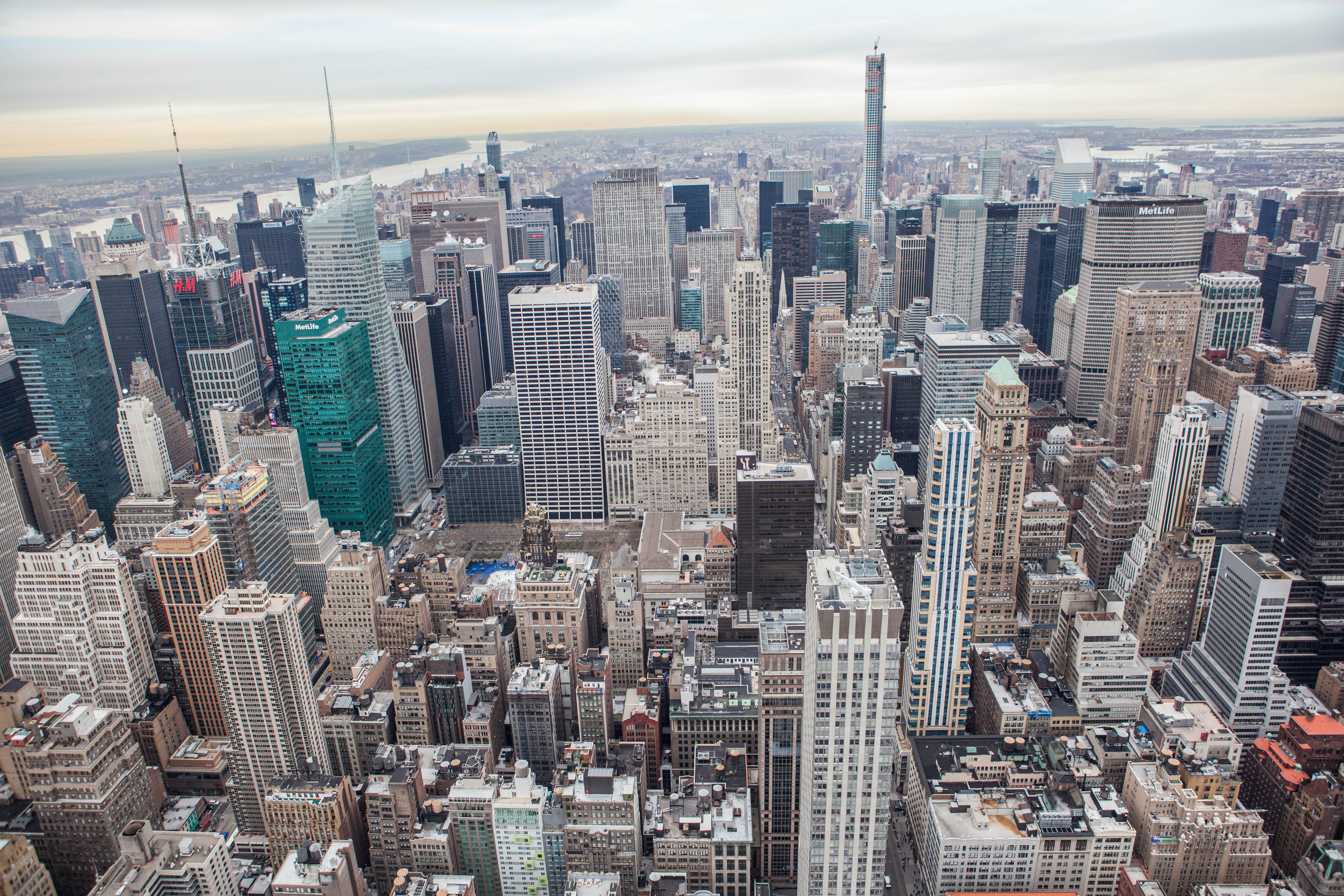 view from either the 30 rock or Empire State Building